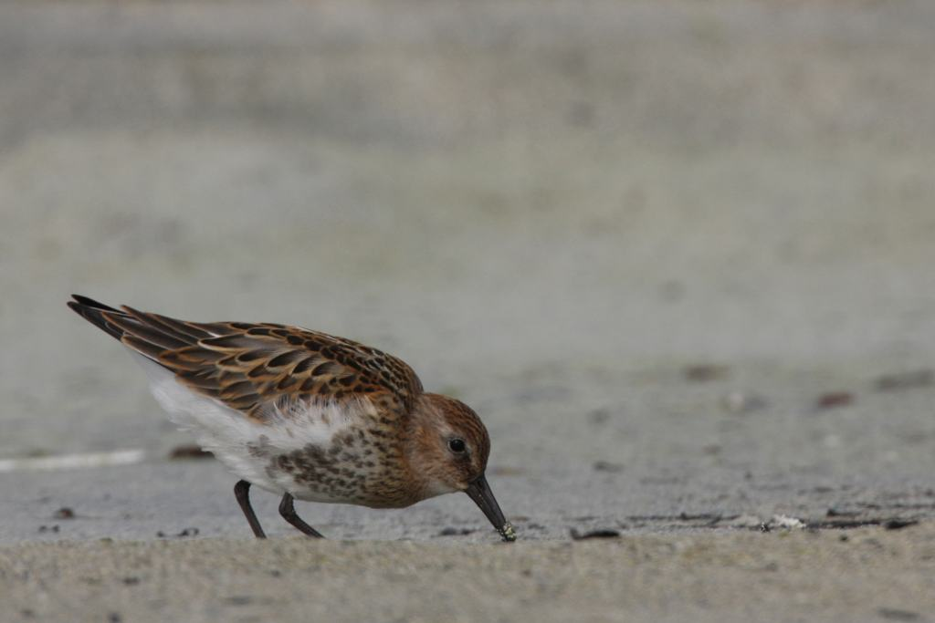 dunlin, Shetland Islands